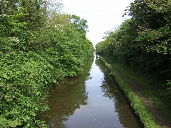 Heading North on the Shropshire Union Canal. The canal passes between the Stretton Spoil Banks. This section of canal is not noted for its views.